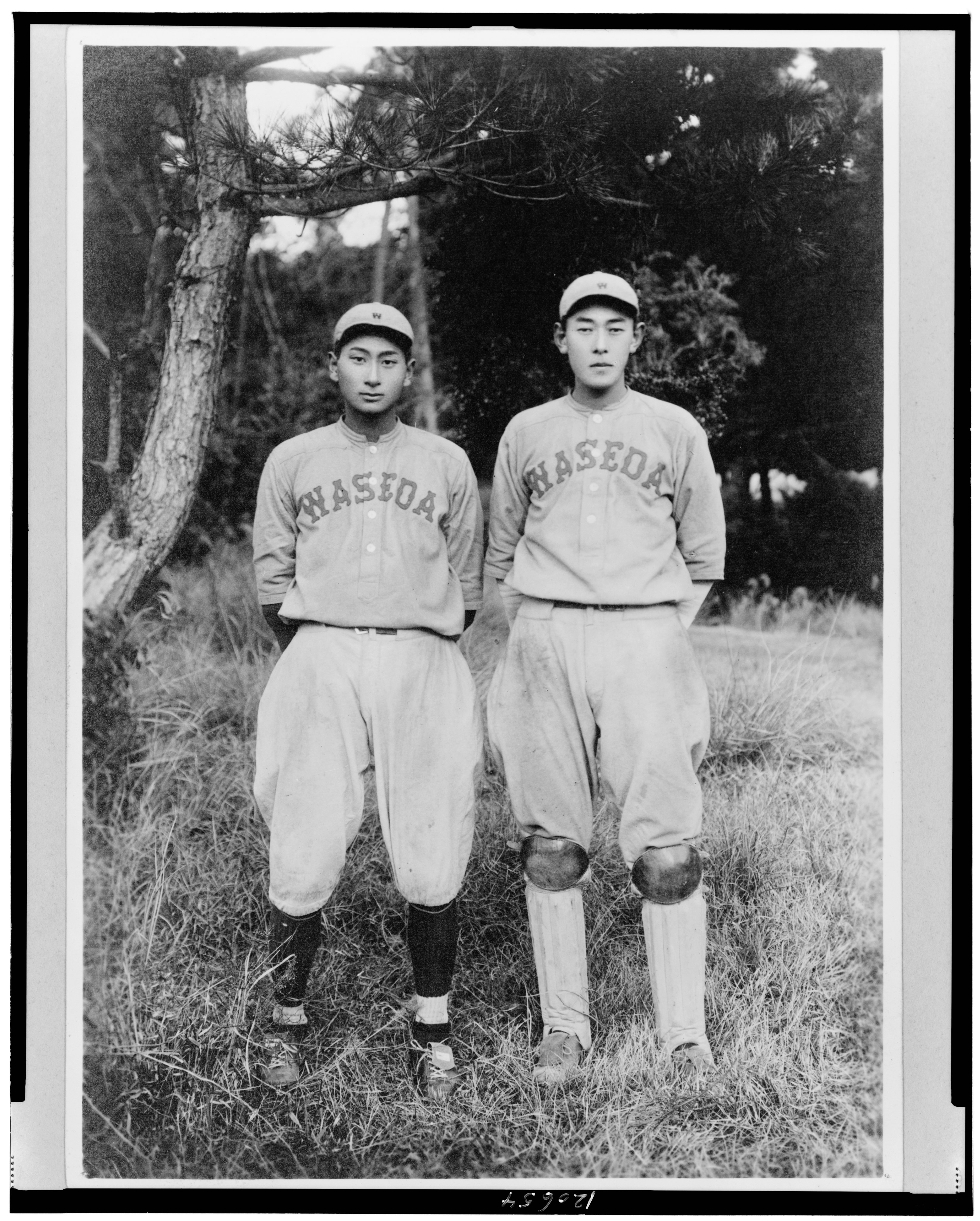 Title: Waseda University Team from Japan, catcher J. Nagano and second baseman J. Kuji (baseball) Abstract/medium: 1 photographic print.